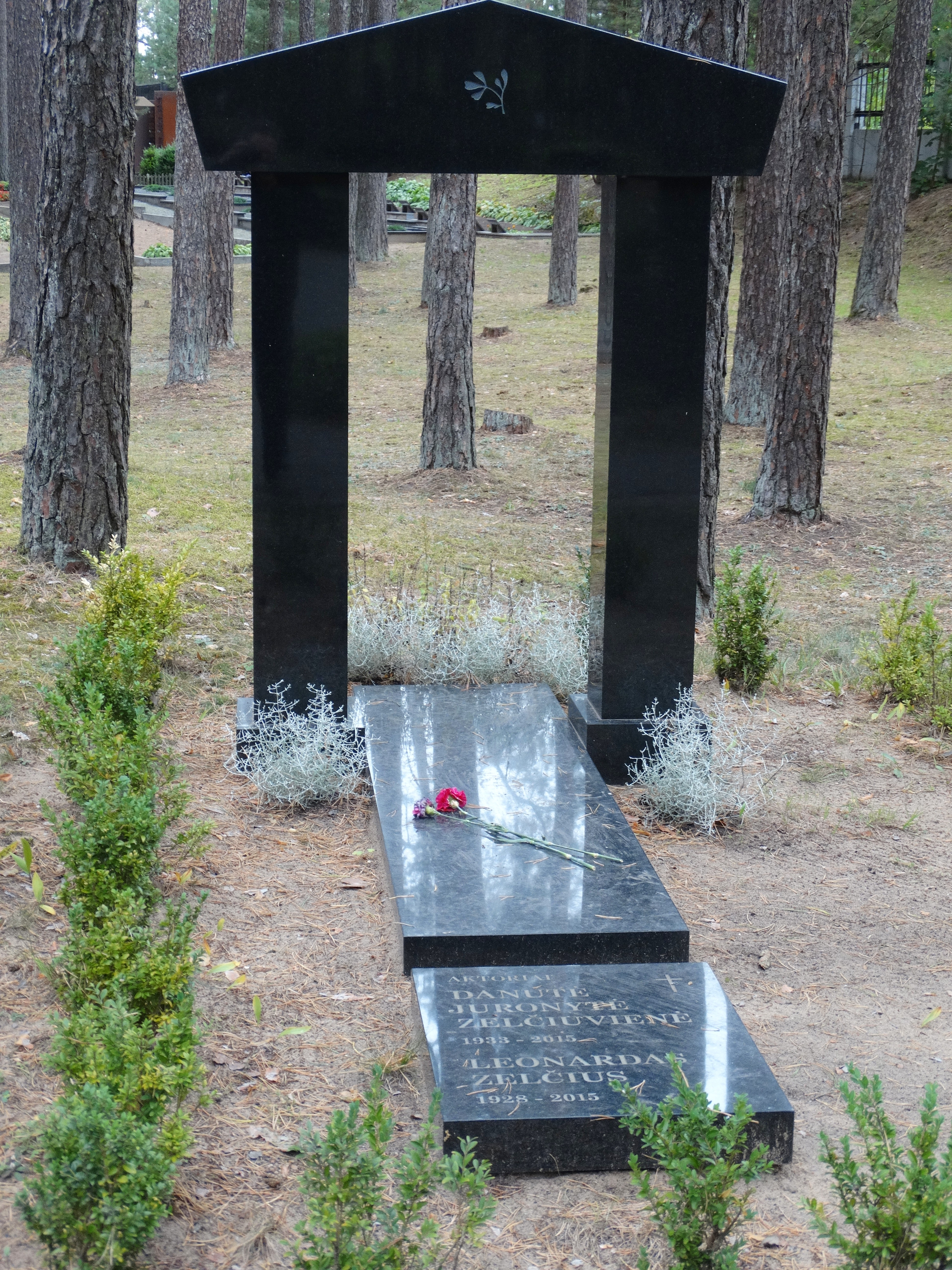 Tomb of Leonardas Zelčius, Danutė Juronytė, Petrašiūnai, Lithuania